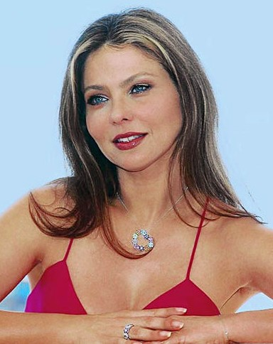 Ornella Muti at Cannes in 2000.